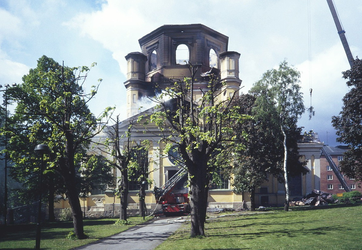 FOTOGRAFIKatarina kyrka efter branden i maj år 1990. 2016-2016FOTOGRAF: Okänd.BILDNUMMER: DIA 26030Stadsmuseet i Stockholm